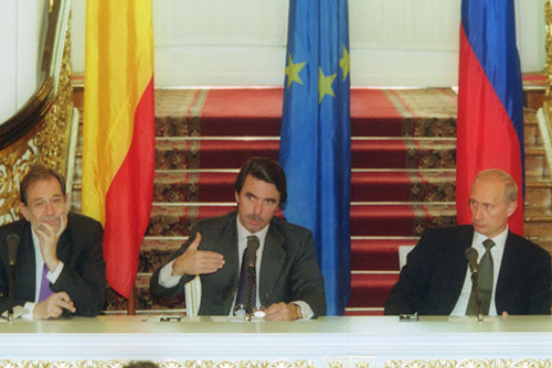 THE KREMLIN, MOSCOW. With Secretary General of the EU Council and High Representative for Common Foreign and Security Policy Javier Solana and Spanish Prime Minister and current President of the European Union Jose Maria Aznar (left to right) at a joint press conference on the results of the Russia-EU Summit.